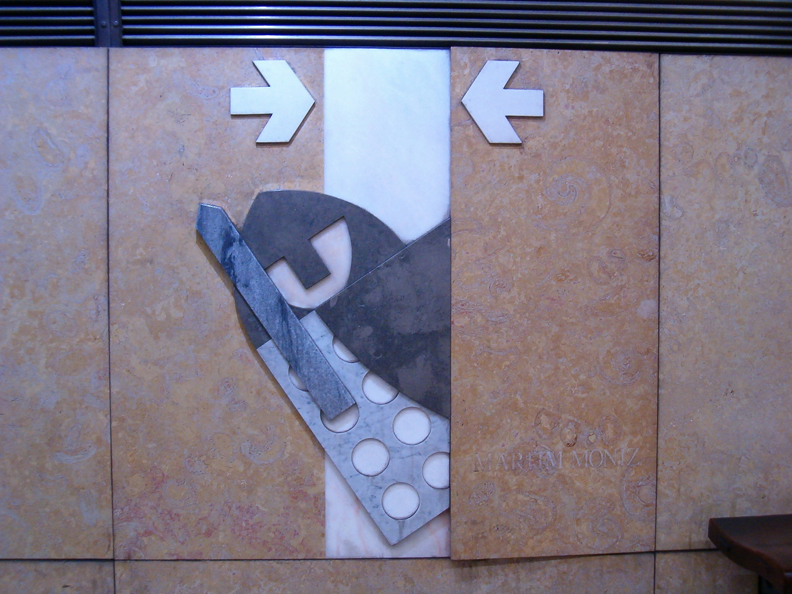 Metro station Martim Moniz (Lisboa)